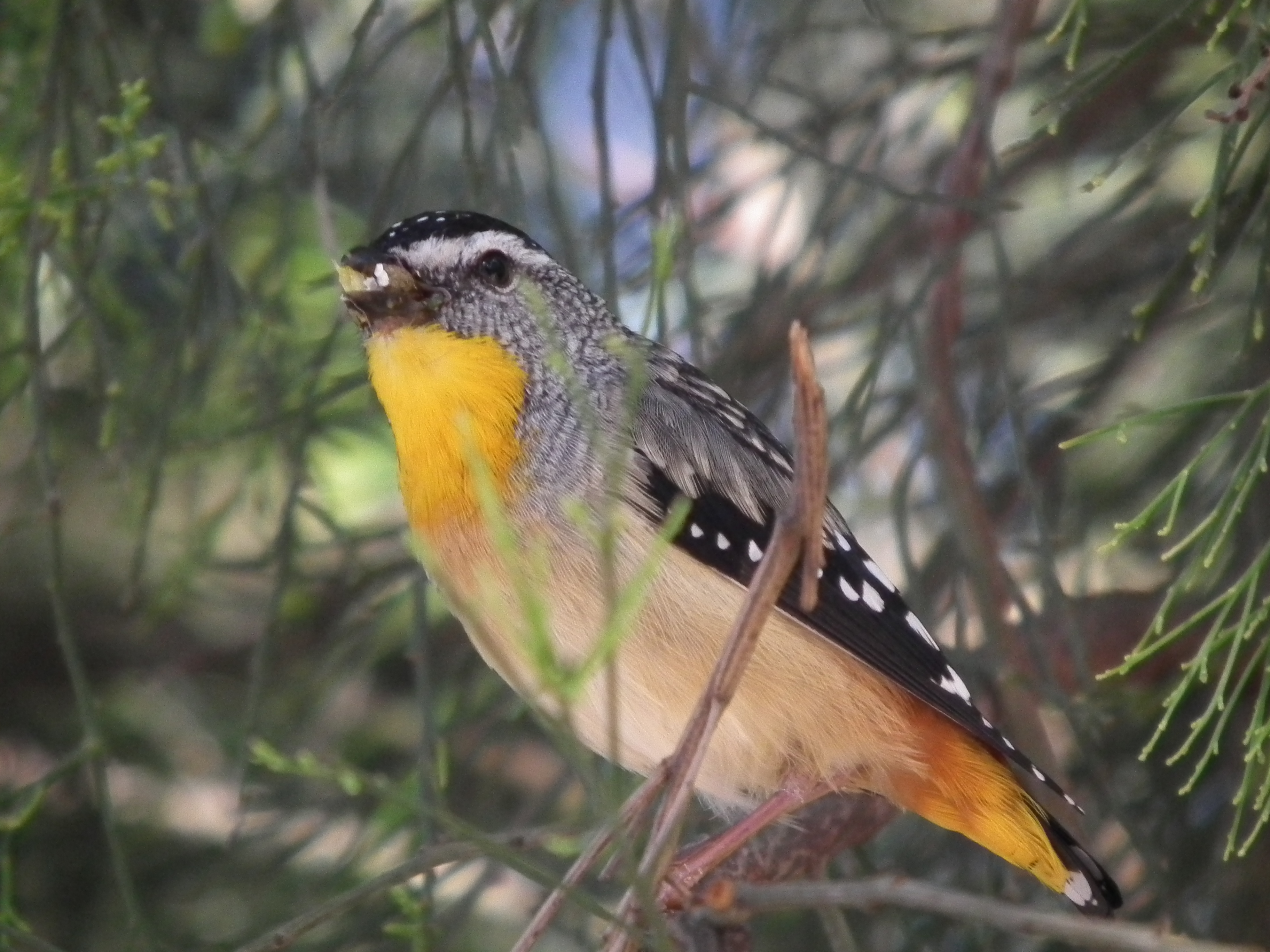 A male Spotted Pardalote at Royal Botanic Gardens, Cranbourne, Melbourne, Australia.